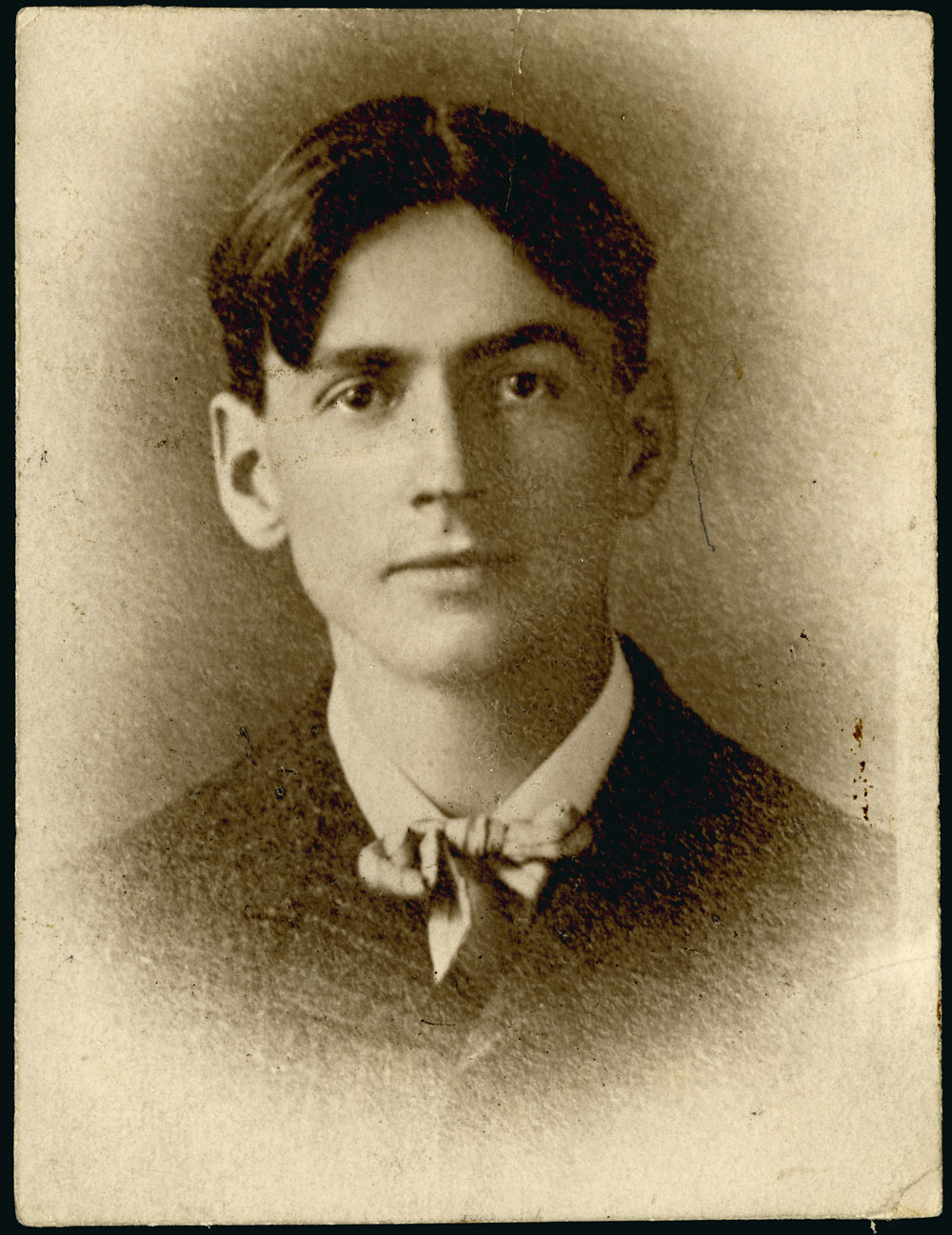 Head and shoulders portrait of Tom Thomson